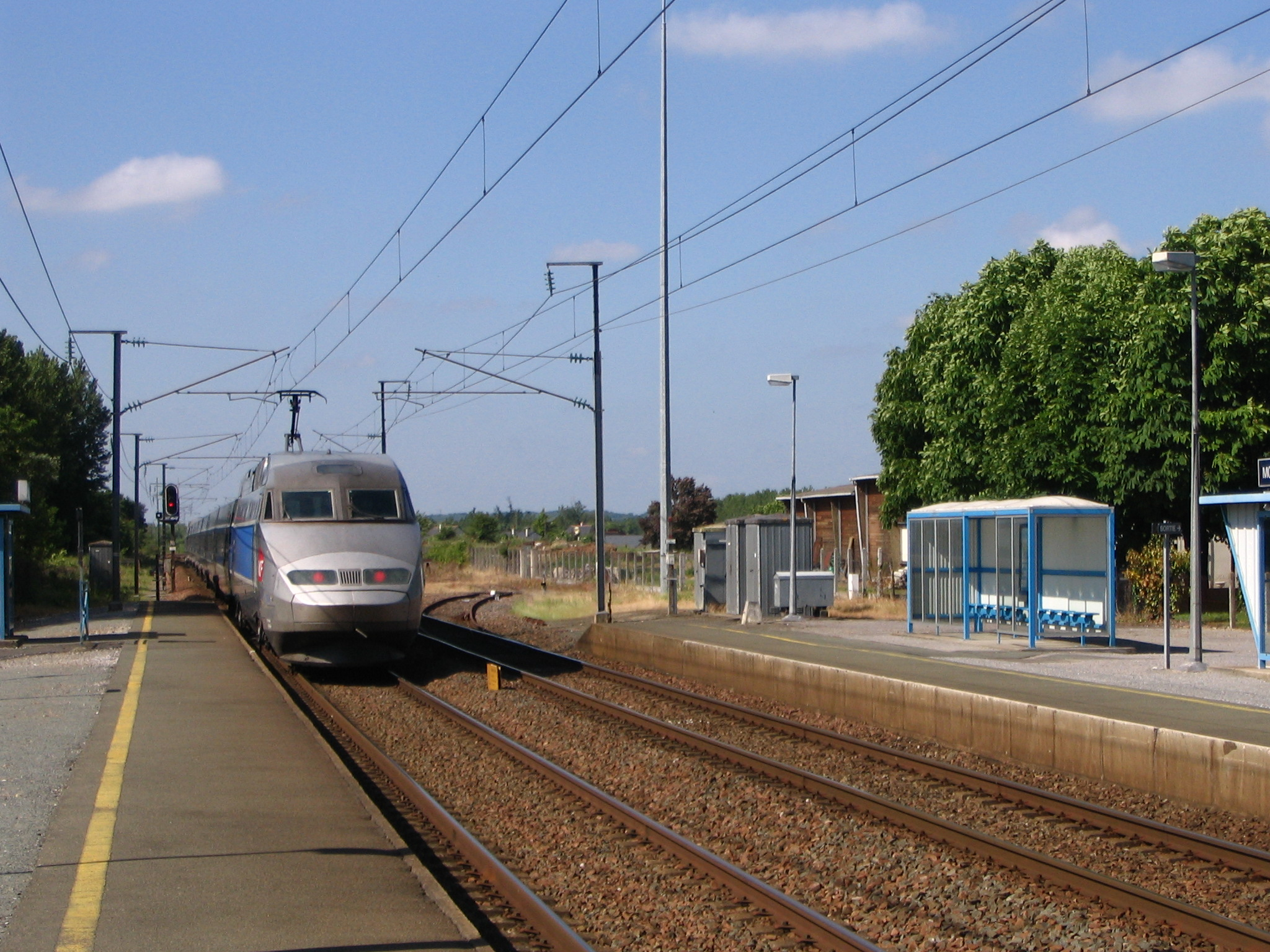 A TGV crossing the station of Morannes, Maine-et-Loire, France.